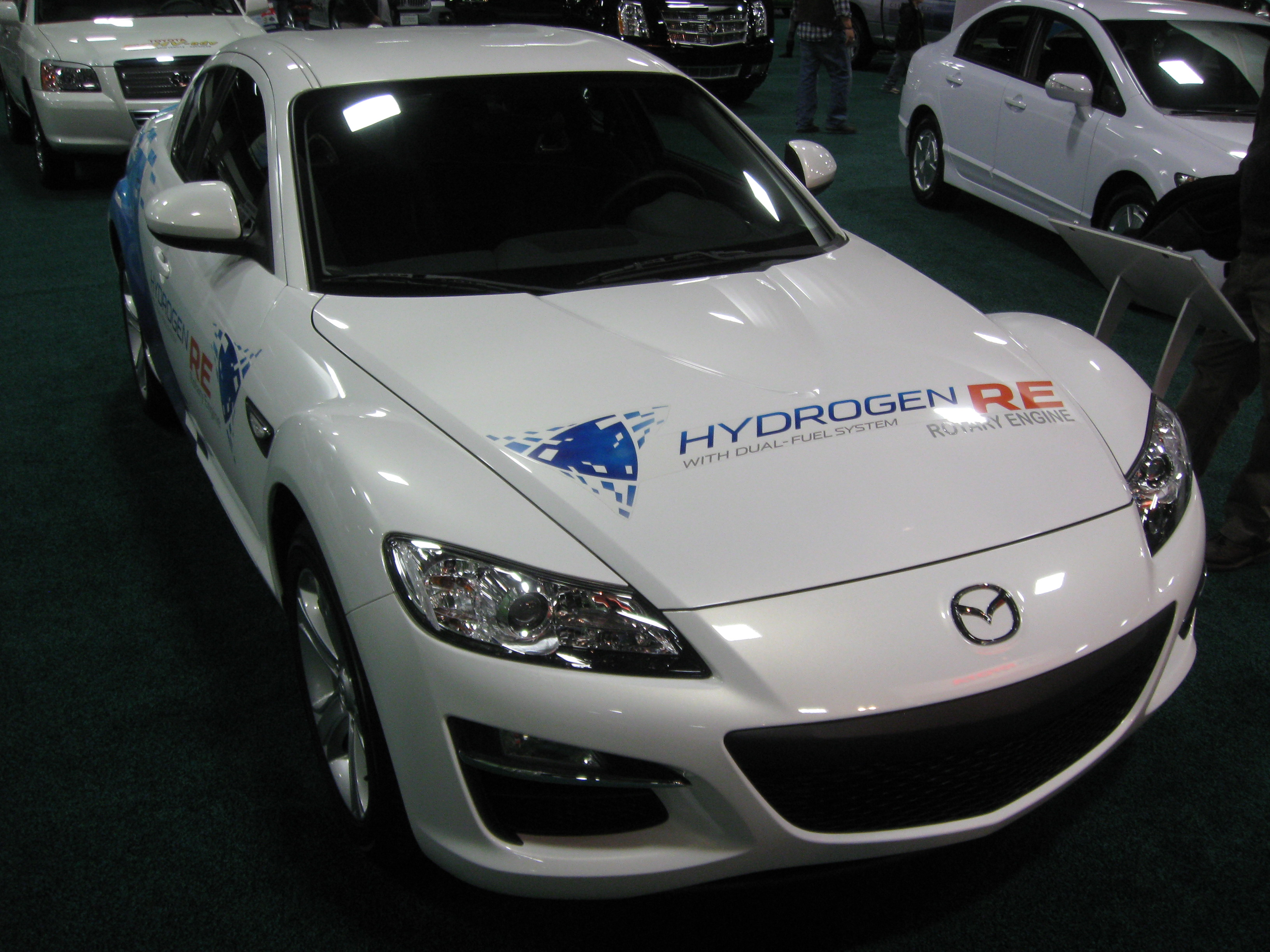 Hydrogen-powered Mazda RX-8 photographed at the 2011 Washington (D.C.) Auto Show.